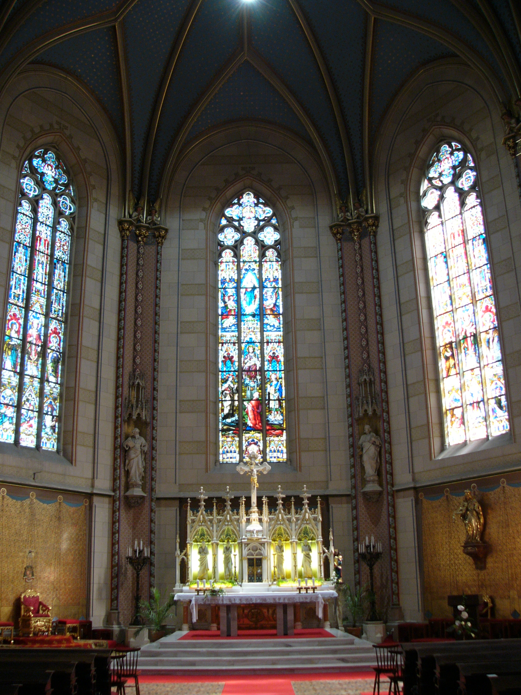 Altar in St. Wenceslaus cathedral in Olomouc (Czech Republic).